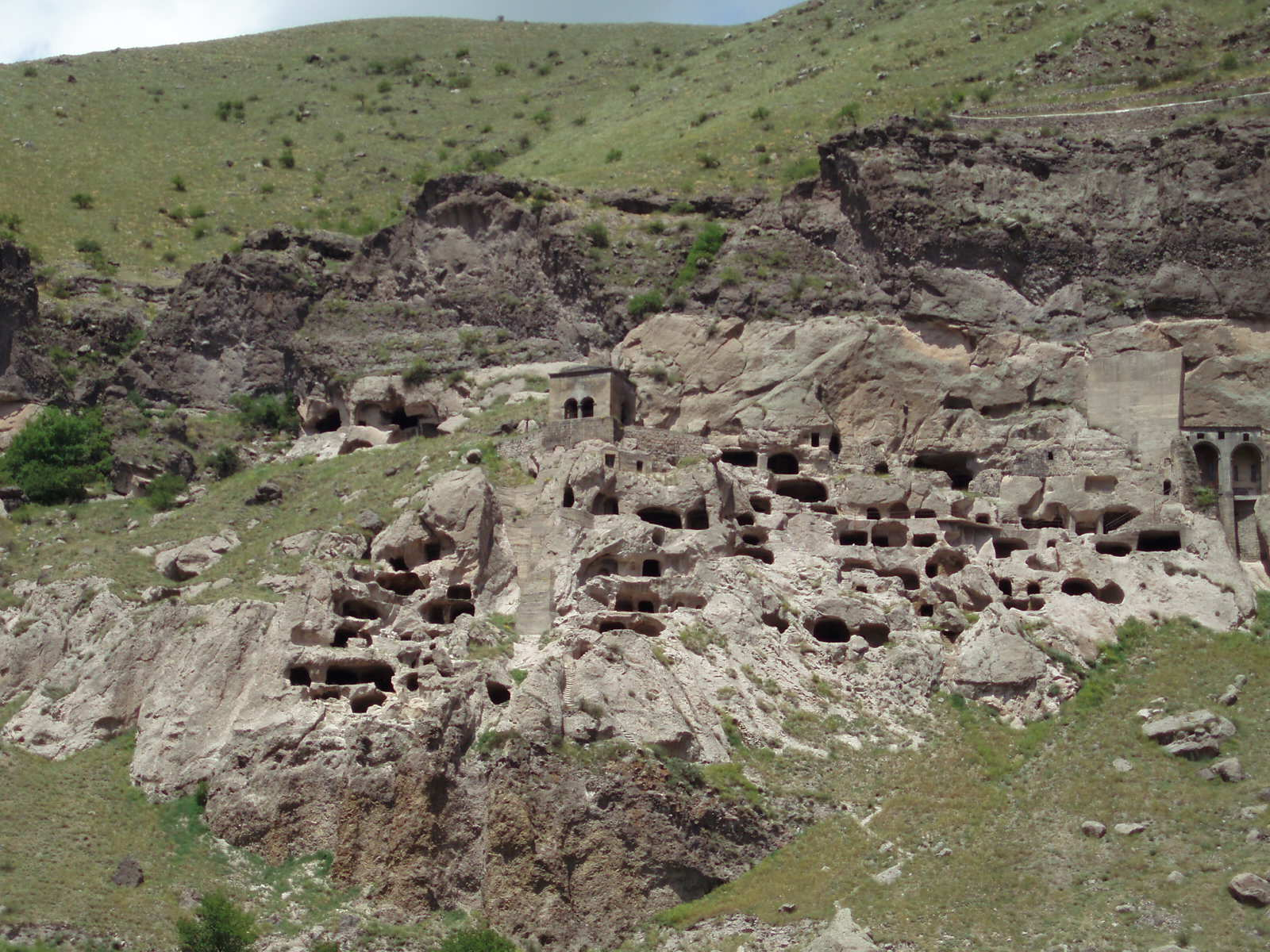 Vardzia